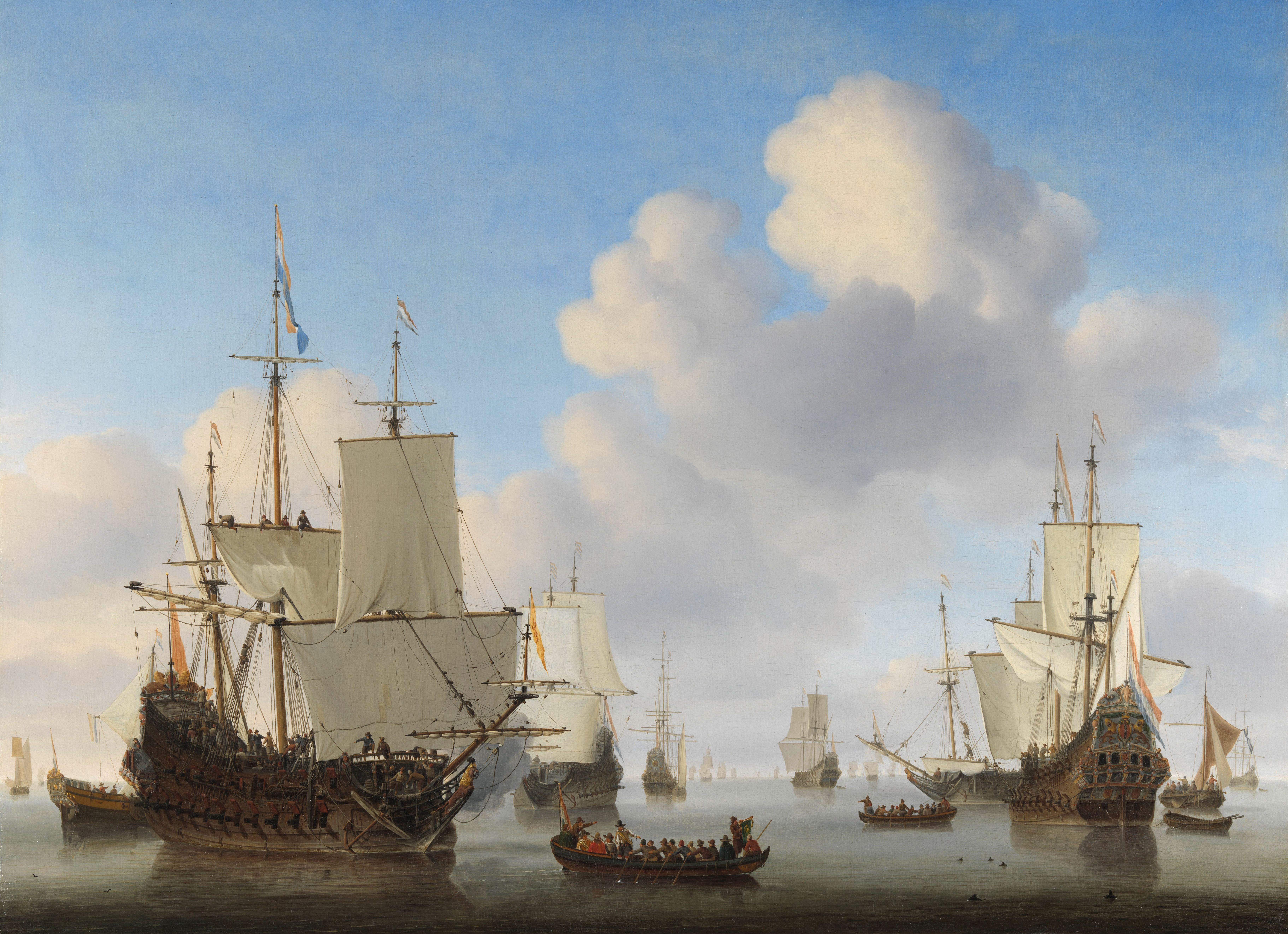 Dutch men-o'-war and other shipping in a calm by Willem van de Velde II (Baptized December 18, 1633).